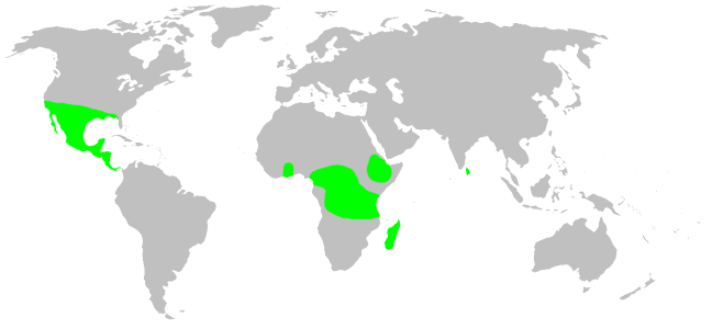 Zorocratidae habitat distribution, drawn after Platnick: World Spider Catalog 7.0. This is not at all a precise rendering of the distribution! If you have better information, please replace this map, or send me the info, and i will redraw it.